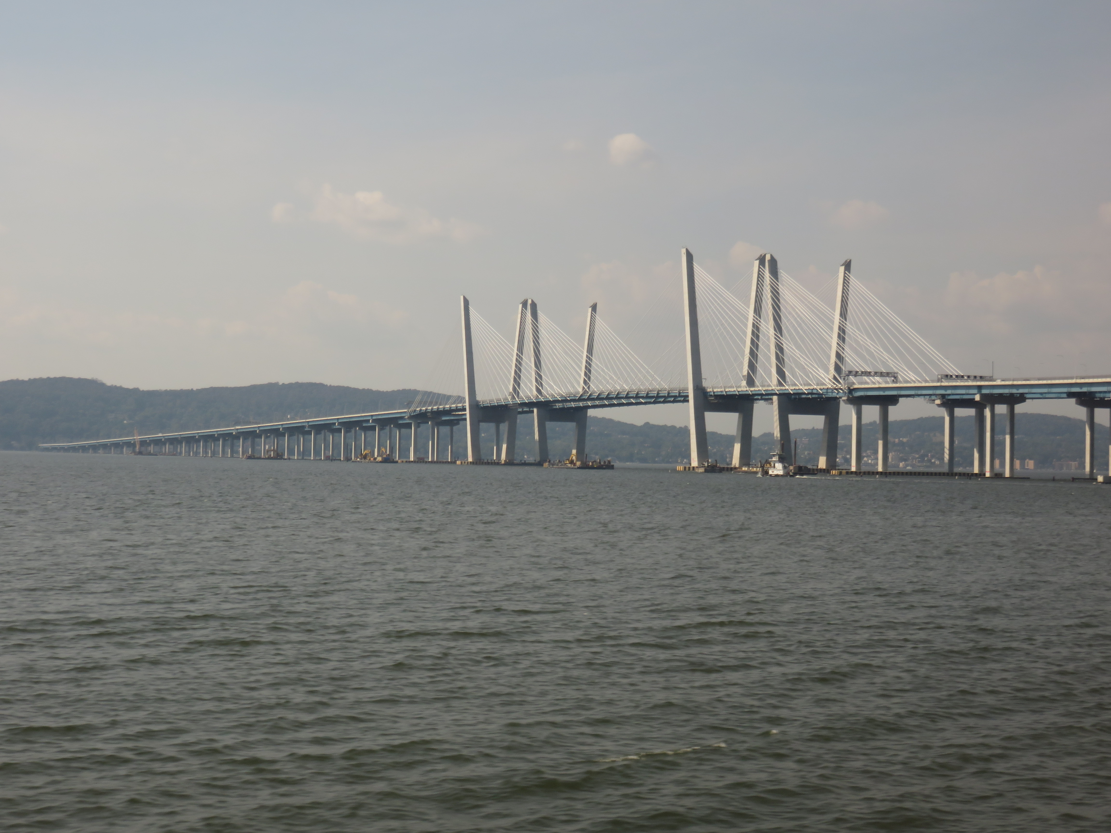 Tappan Zee Bridge viewed from an Amtrak train in 2019